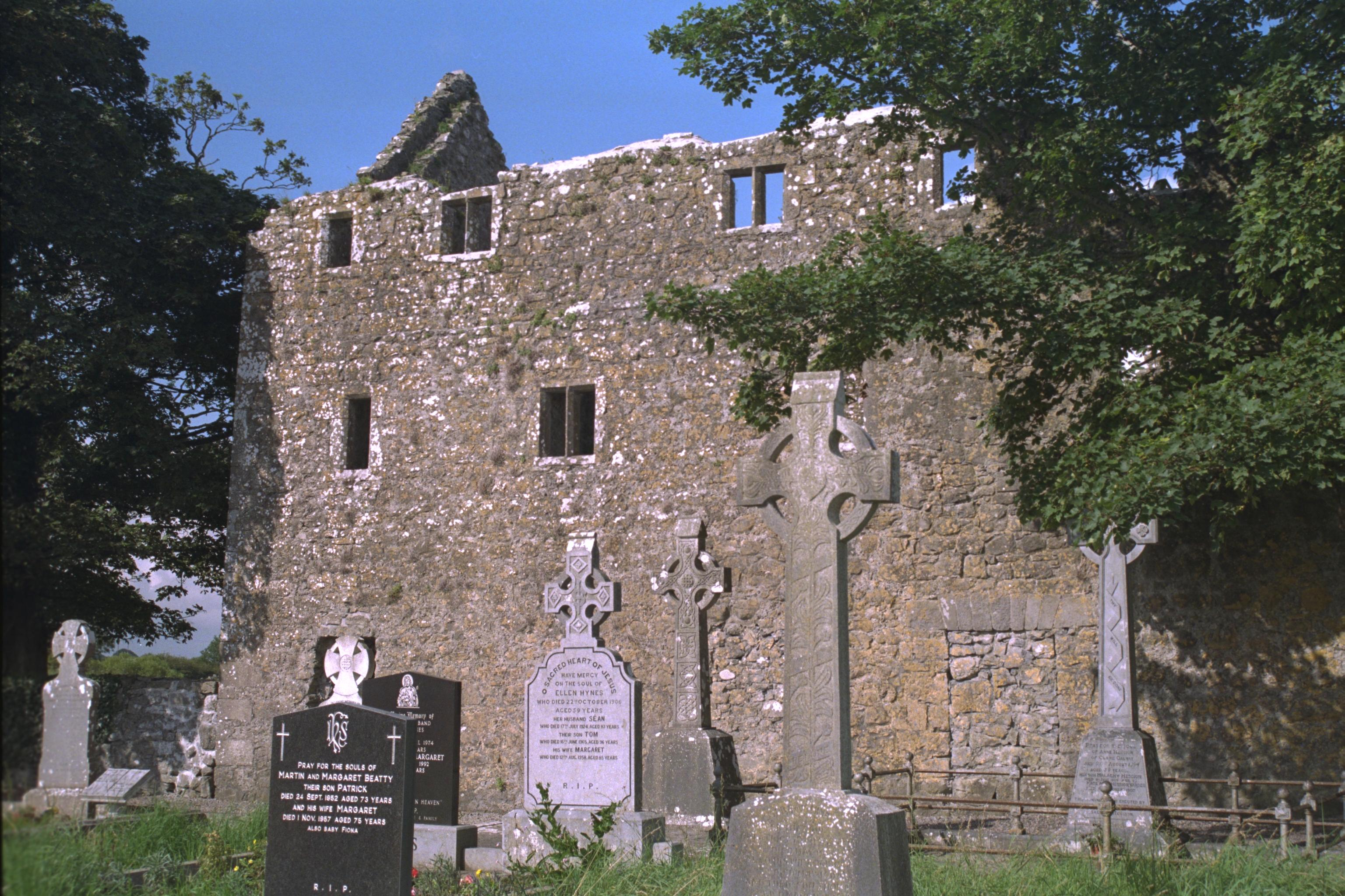 Claregalway Friary, County Galway, Ireland Living quarters